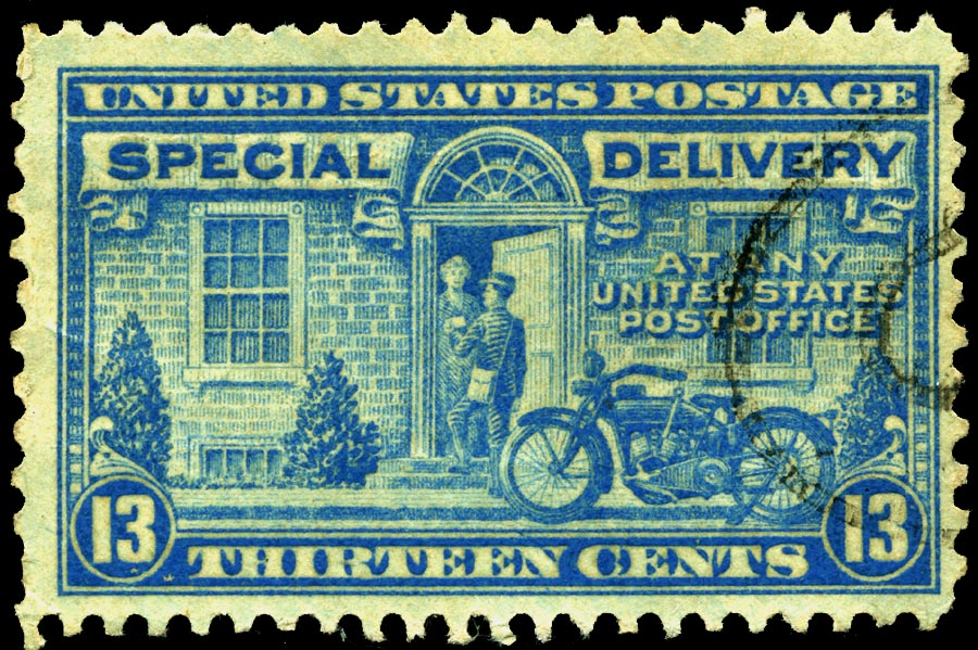 United States 13c special delivery stamp of 1944